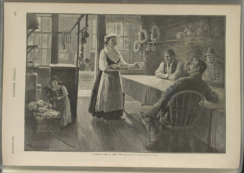 Title: A Sicilian café in New York / Drawn by W.A. Rogers. Abstract/medium: 1 print : wood engraving.